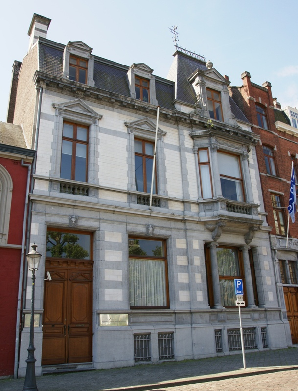 National monument no. 506725- Vrijthof 19, "Huis Pijls", Maastricht, The Netherlands. Built in 1905 by the Liège architect S. Rémont.